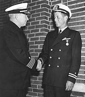 Description: Lt. John F. Kennedy, USNR, is awarded the Navy and Marine Corps medal for "...extremely heroic conduct as Commanding Officer of Motor Torpedo Boat 109...". The Medal was presented to John F. Kennedy by Captain Frederick L. Conklin, Commandant of the Chelsea Naval Hospital, at the hospital in Massachusetts for Kennedy's heroics in the rescue of the crew of PT 109 during WWII on August 2, 1943 when the motor torpedo boat was struck by a Japanese destroyer.